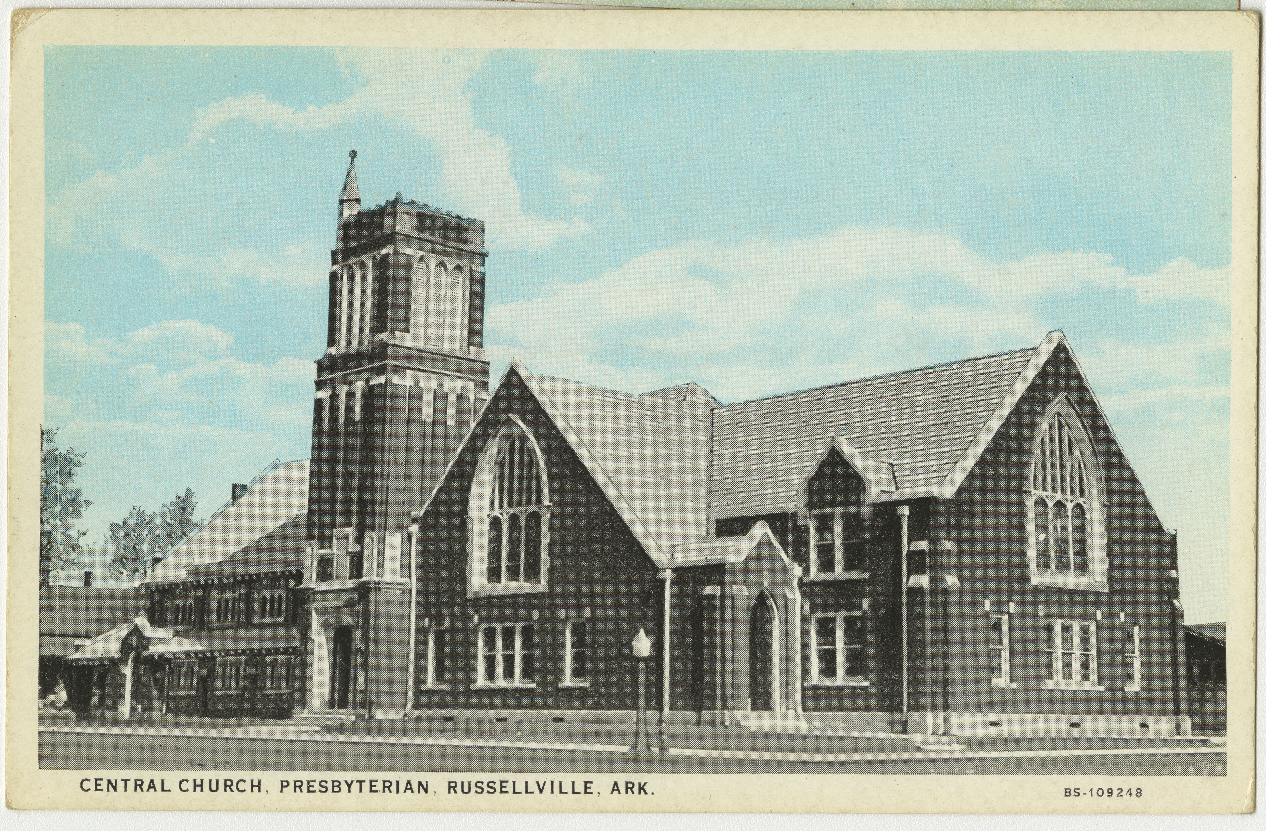 Central Presbyterian Church in Reussellville, Arkansas from a pre-1923 postcard From RG 428, Postcard Collection, Presbyterian Historical Society, Philadelphia, Pennsylvania.